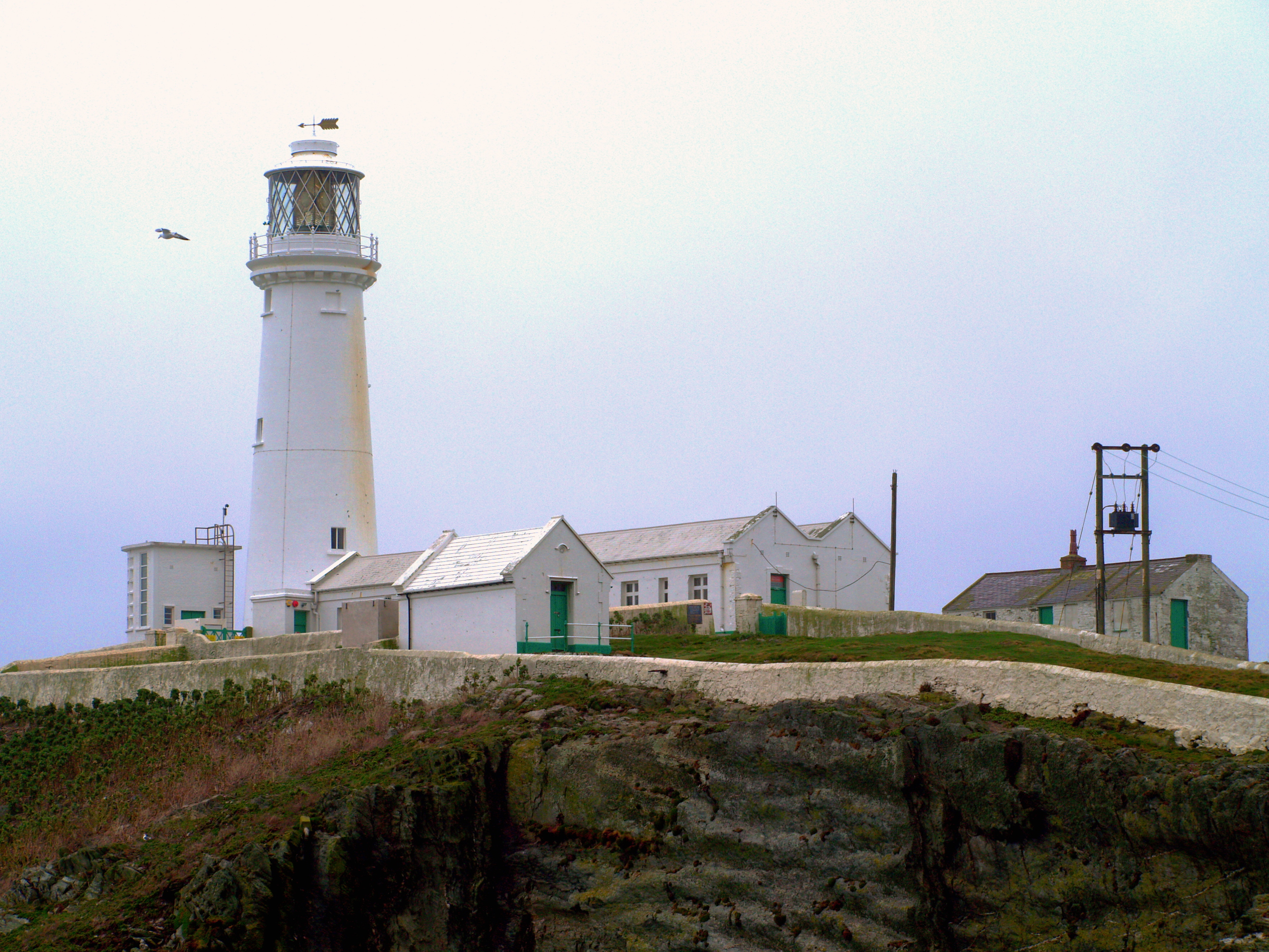 Holyhead,South Stack